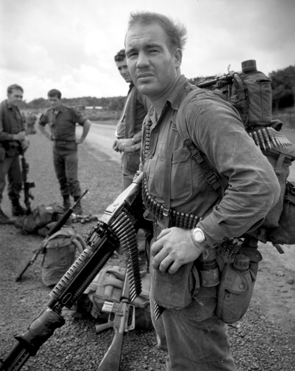 Soldier of Royal Australian Regiment with M60.